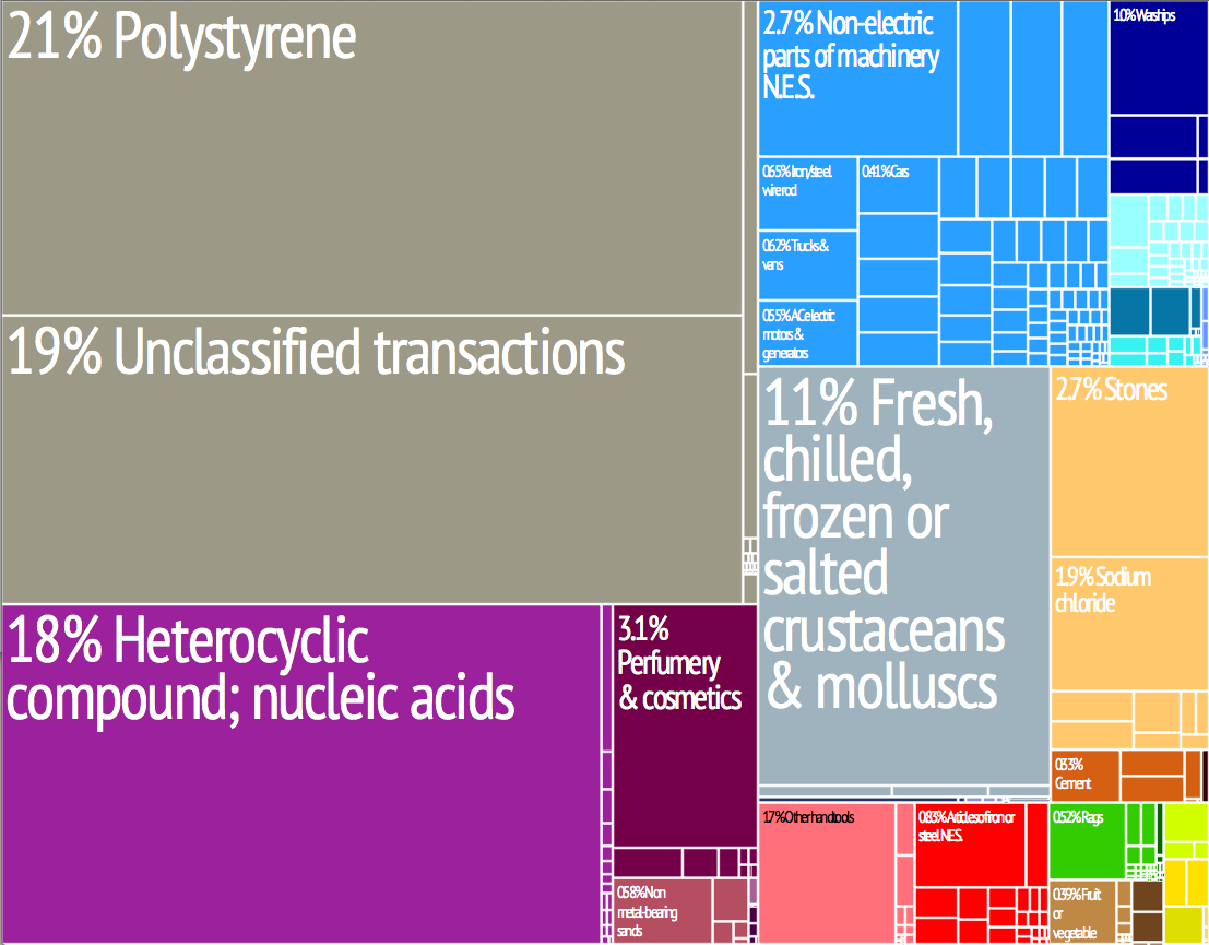 Export Trading Treemap. From MIT/Harvard Atlas of Economic Complexity